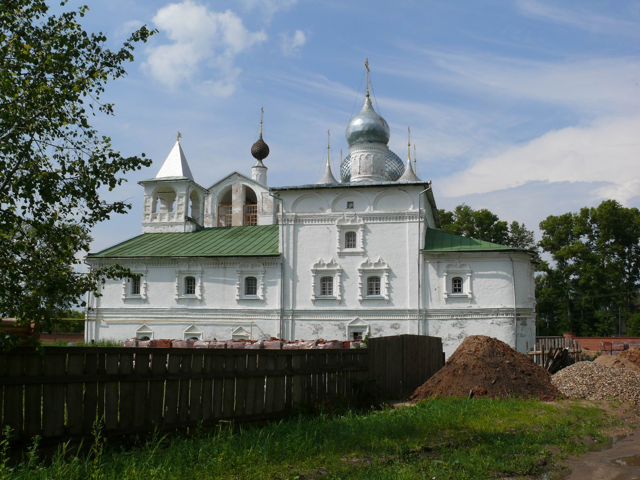 Voskresensky Monastery (Uglich)